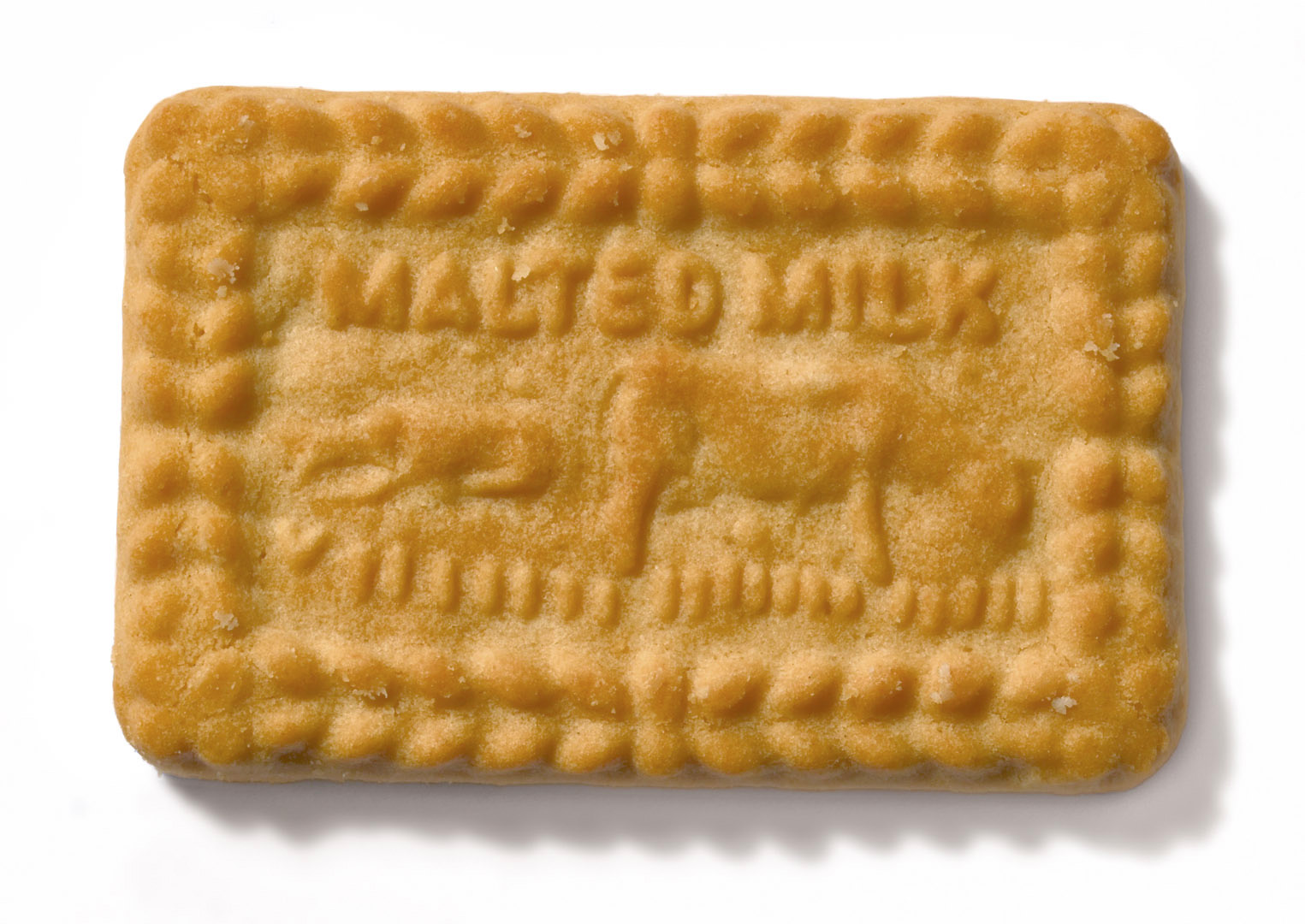 A Malted Milk biscuit (Tesco own-brand, bought in UK. EAN 5000119002402)